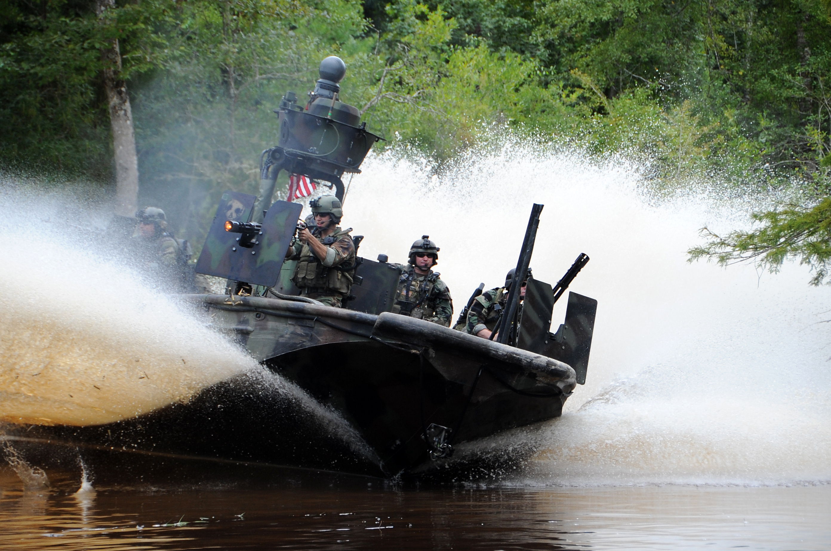 JOHN C. STENNIS SPACE CENTER, Miss. (Aug. 16, 2009) Special warfare combatant-craft crewmen (SWCC) from Special Boat Team 22 operate a special operations craft-riverine (SOC-R) during the filming of a scene in an upcoming major motion picture. The movie is due in theaters in 2010. (U.S. Navy photo by Chief Mass Communication Specialist Kathryn Whittenberger/Released)